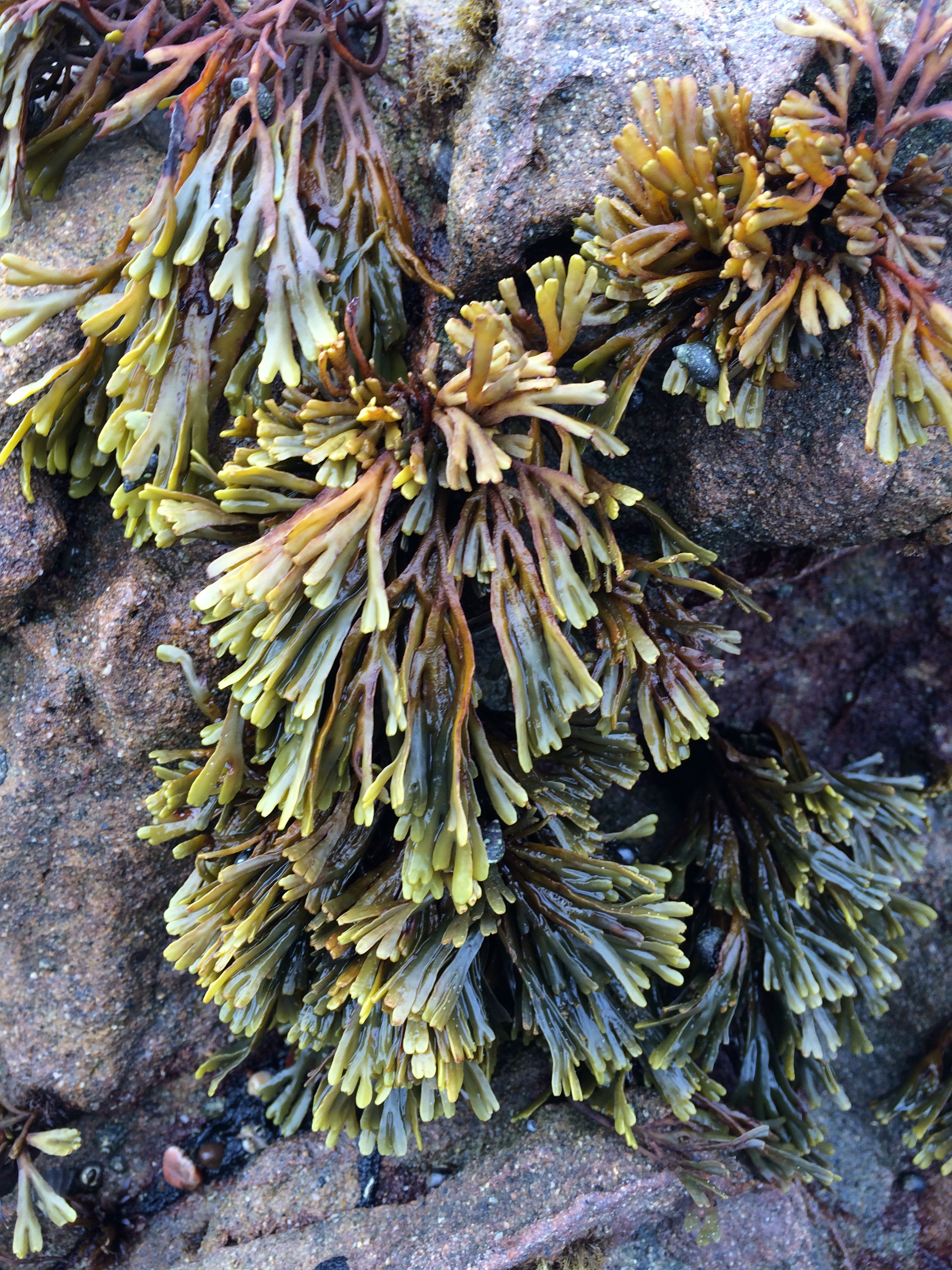 Dwarf rockweed, Pelvetiopsis limitata, per Mondragon guide